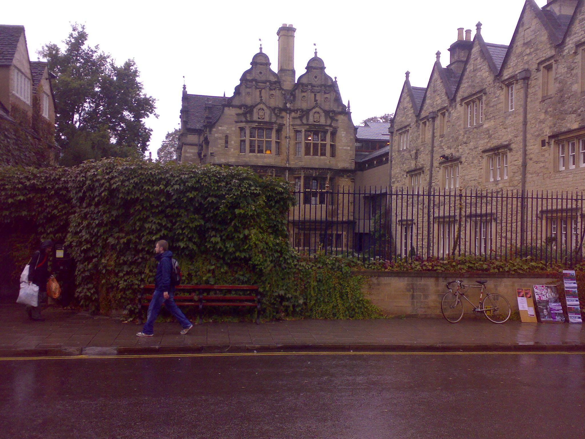 The front quadrangle of Trinity College, with Graduates Garden in between abutting Broad Street.